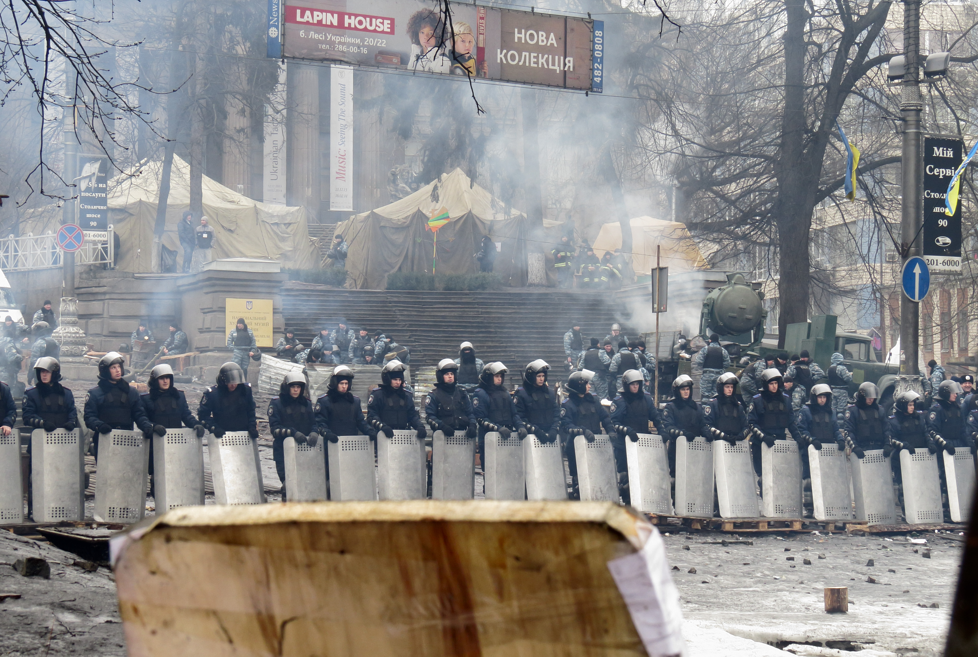 Euromaidan in Kiev. Police in Hrushevsky street